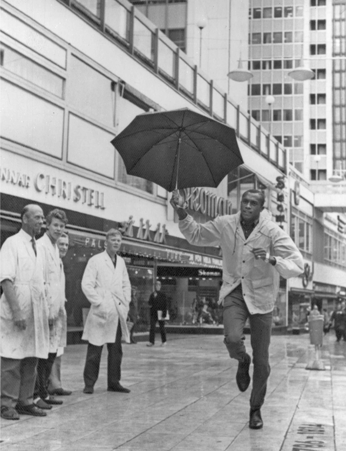 Photograph of the athlete Tommie Smith (1944–) during his visit in Stockholm, Sweden.